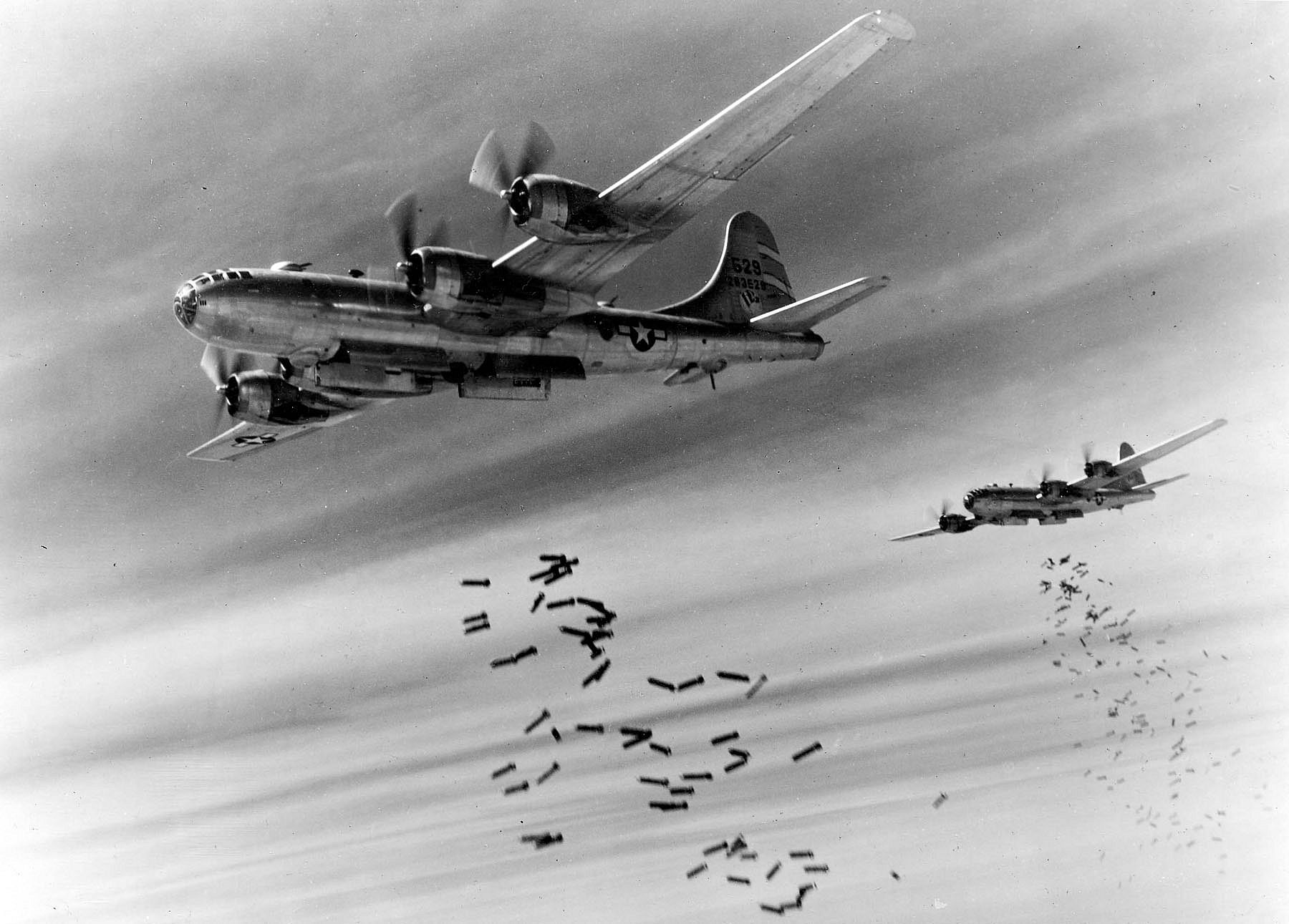 Boeing B-29s drop bombs over Rangoon, Burma. Nearest aircraft is B-29-25-BA (S/N 42-63526) of the 871st Bomb Squadron, 497th Bomb Group, 20th Air Force. This aircraft was reported as shot down by flak Mar 24, 1945 near Nagoya, Japan (U.S. Air Force photo)